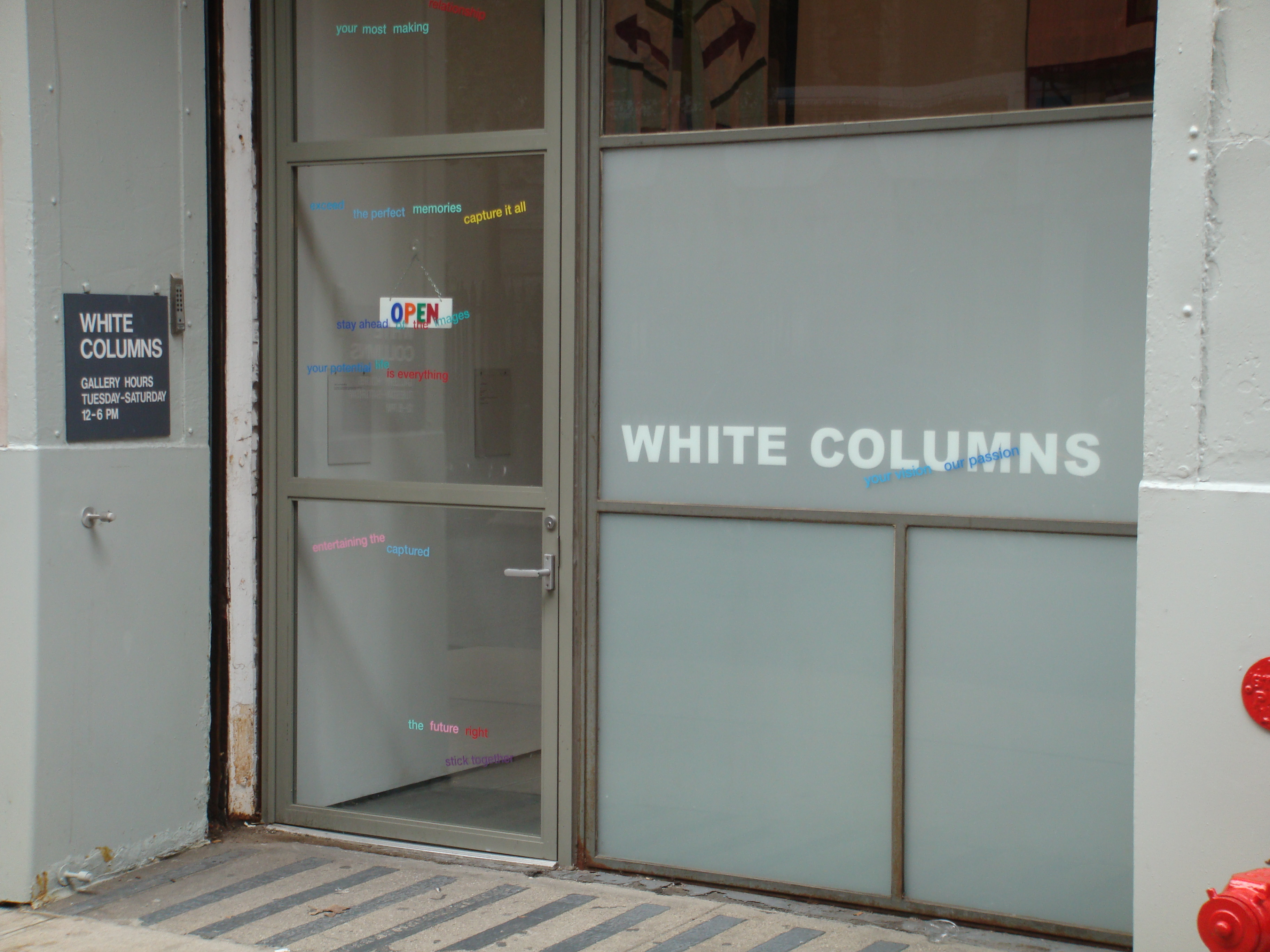 This photo is of Wikis Take Manhattan goal code F3, White Columns.